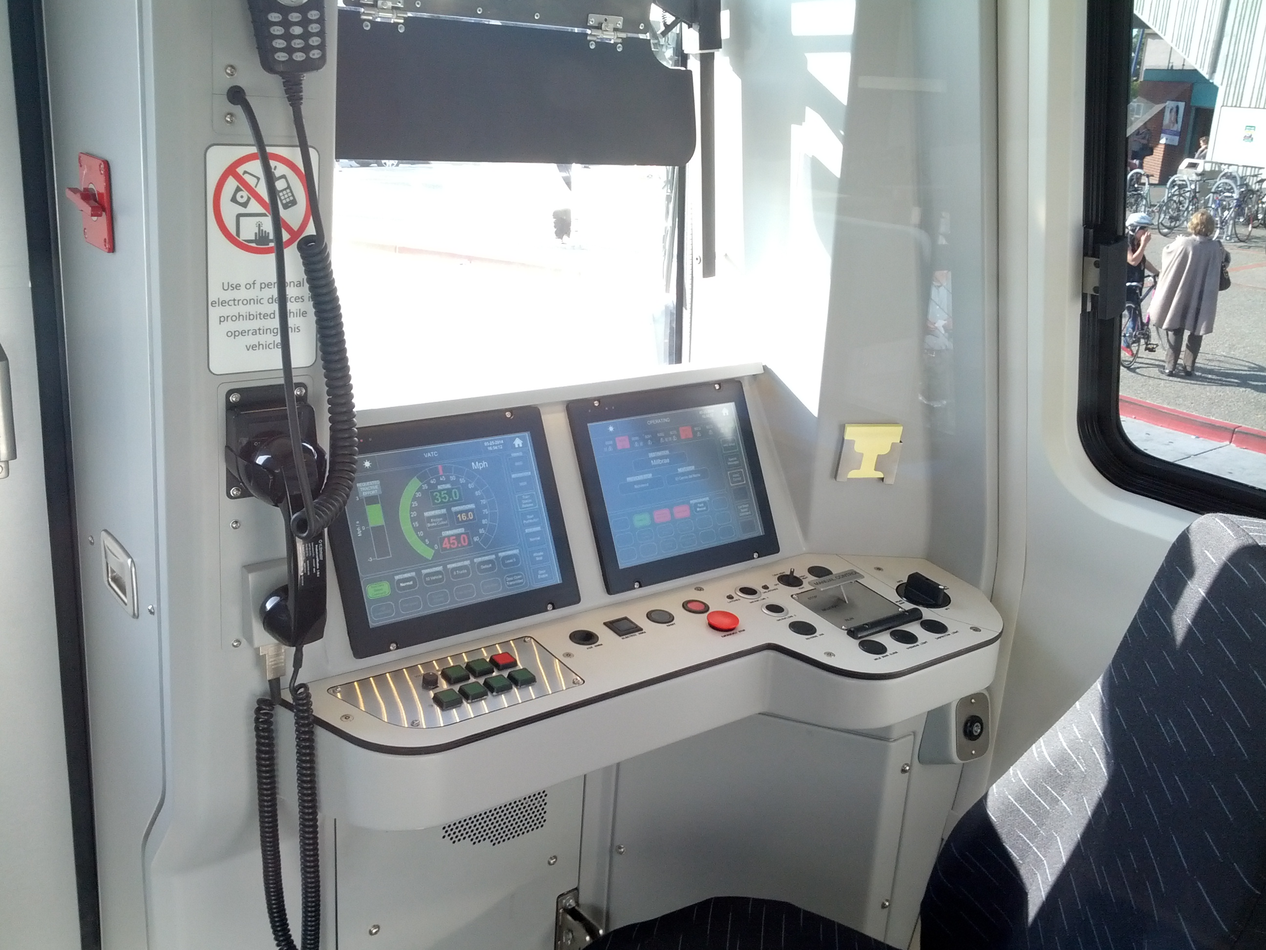 Operator's cab in mockup of BART D car